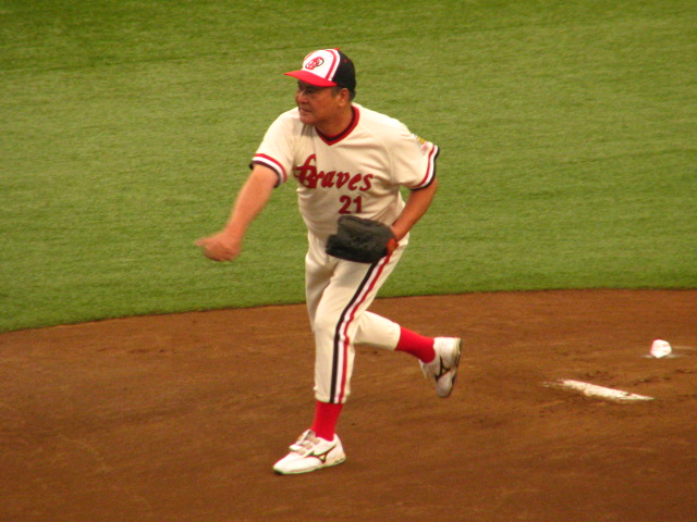 Yūtarō Imai at Lions Classic 2009